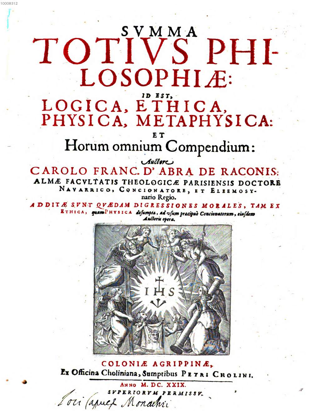 1st page of Summa Totius Philosophiae: Id Est, Logica, Ethica, Physica, Metaphysica: Et Horum omnium Compendium by Charles François d'Abra de Raconis (1580–1646)